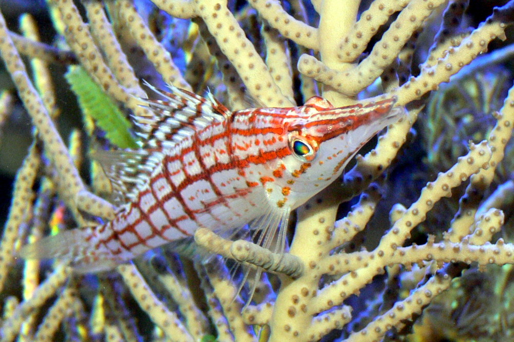 Longnose Hawkfish (Oxycirrhites typus)